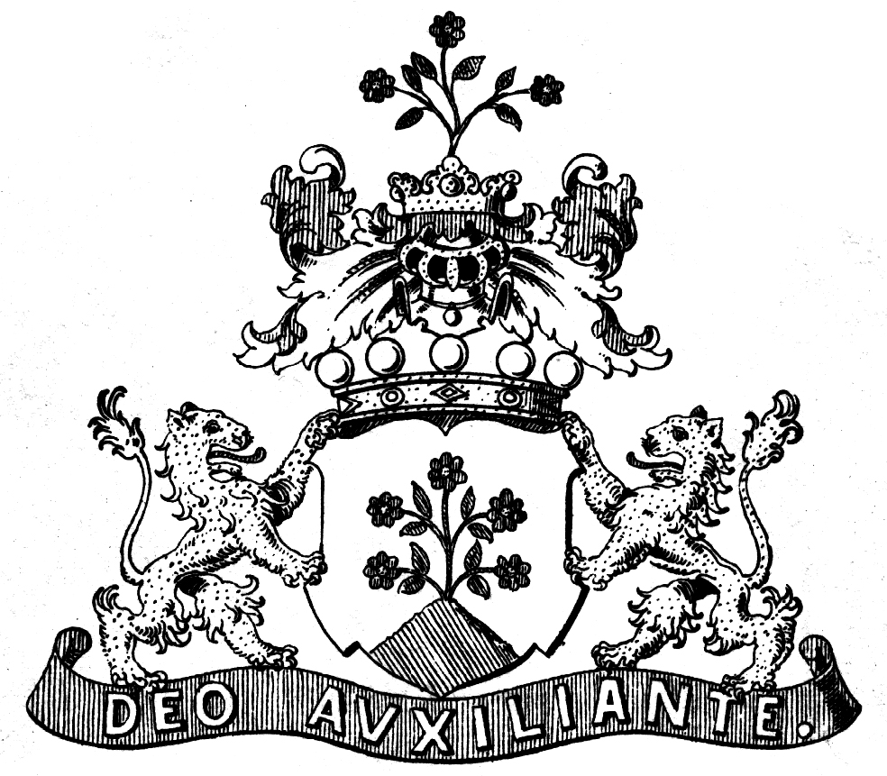 The Coat of Arm